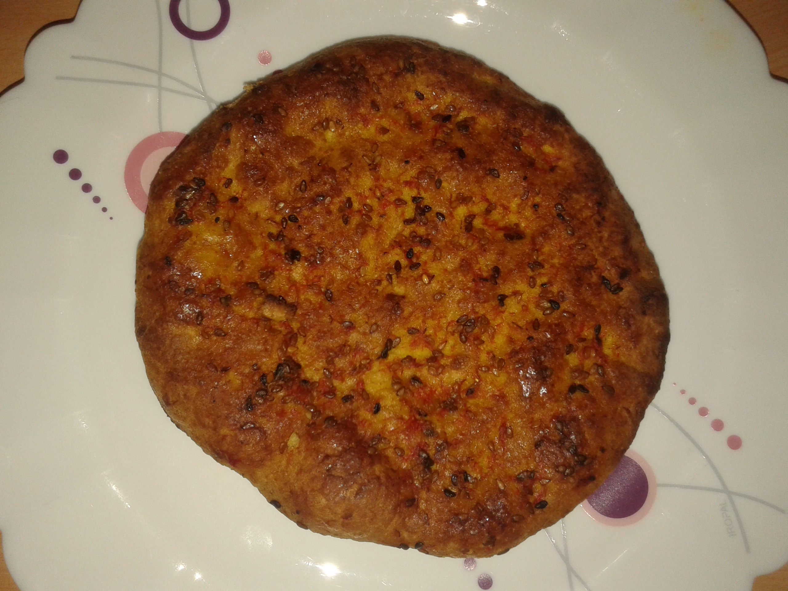 Kakooli is a kind of bread cooked in Chaharmahal and Bakhtiari Province, Iran.